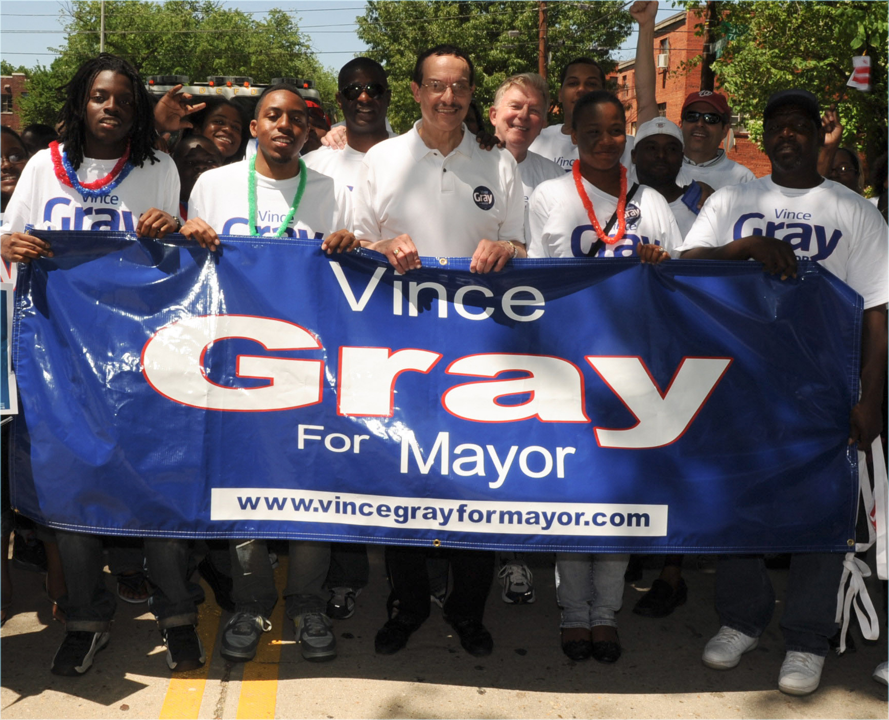 ASYEP-DC Founder, Ward 7 Republican Larry Pretlow II (Green Necklace) with DC Council Chairman & 2010 DC Mayoral Candidate Vince Gray on Saturday, May 8th 2010. Washington, D.C. - Ward 7 Nannie Helen Burroughs Day Parade.